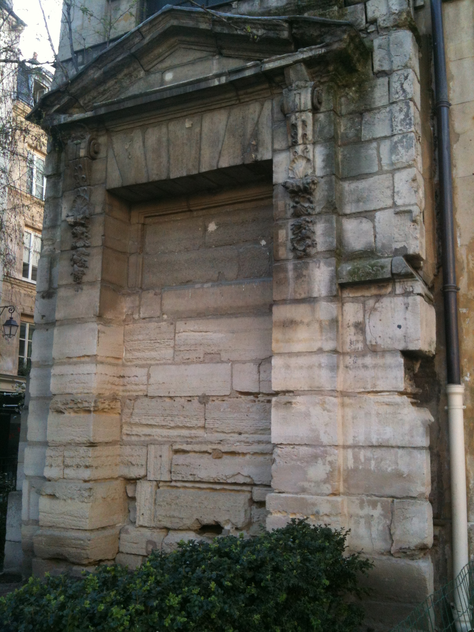 Square Victor-Langlois, Paris, 4e arrondissement. An old well.